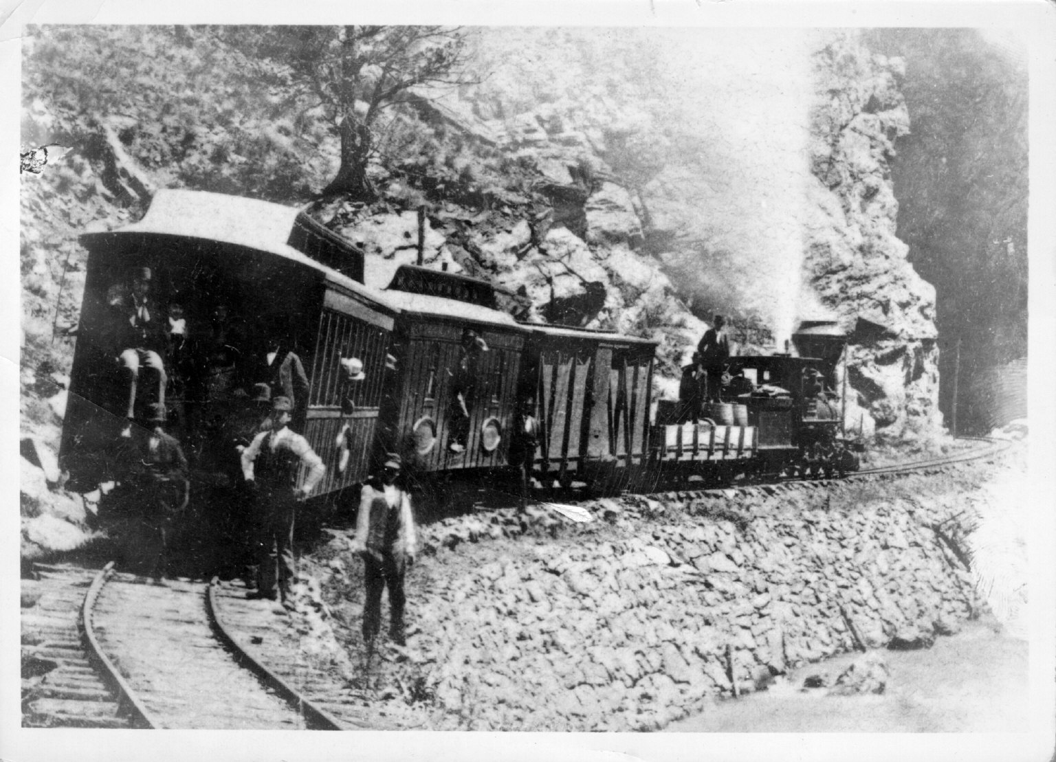 Collection: De Forest Douglas Diver Railroad Photographs, ca. 1870 - 1948, Cornell University Library Title: Work Train c. 1880 Place: New York (State) Medium: Gelatin silver print Notes: Notes on Image folder, "Work Train c. 1880; Wheels 2-8-0 or Most Likely Middlaus equipment." Provenance: Diver, De Forest Douglas, 1878-1958, Collector Finding Aid: [1] There are no known U.S. copyright restrictions on this image. The digital file is owned by the Cornell University Library which is making it freely available with the request that, when possible, the Library be credited as its source. We had some help with the geocoding from Web Services by Yahoo!